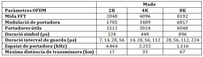 OFMD table